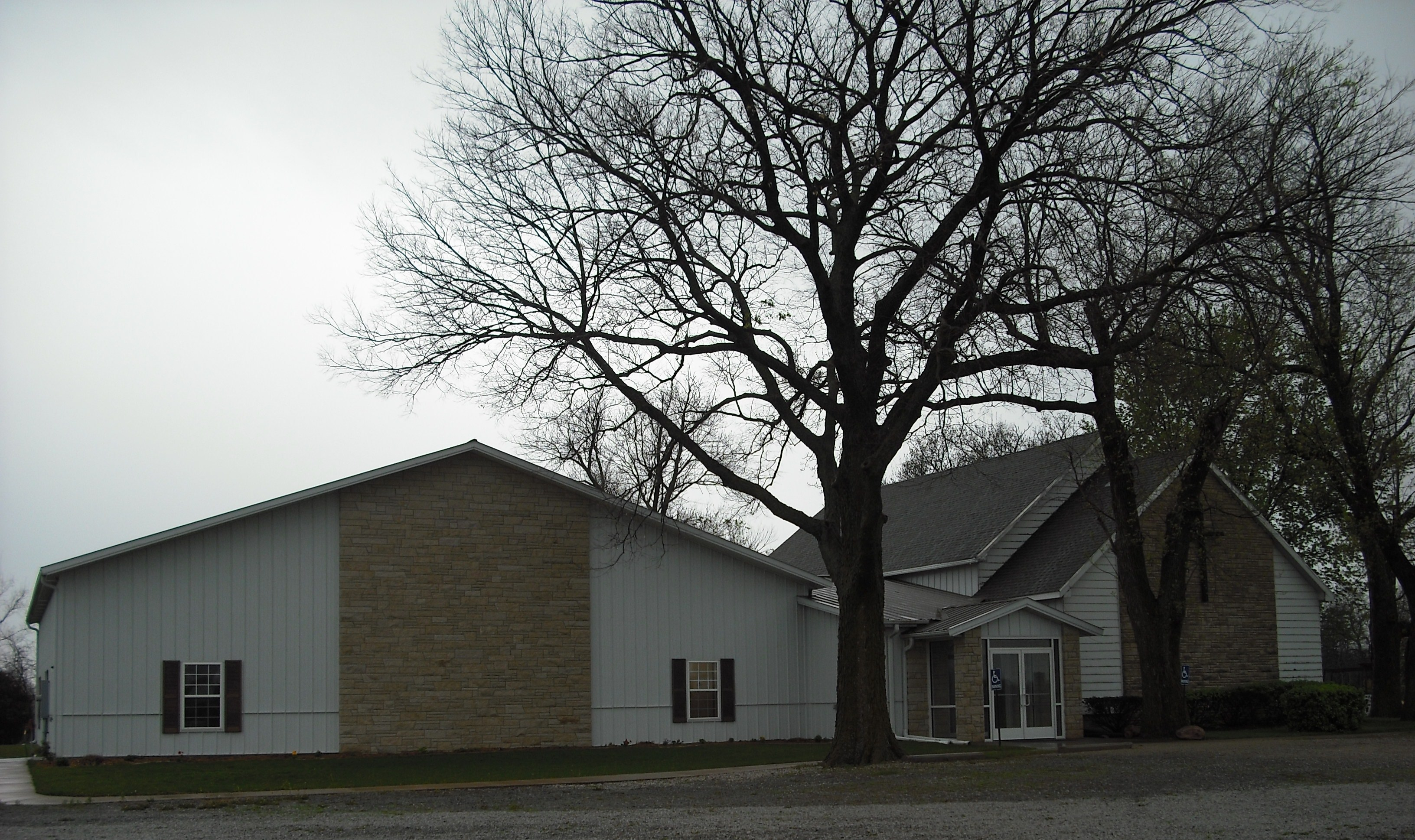 The Hesper Friends Church located in Hesper, Kansas, south of Eudora.